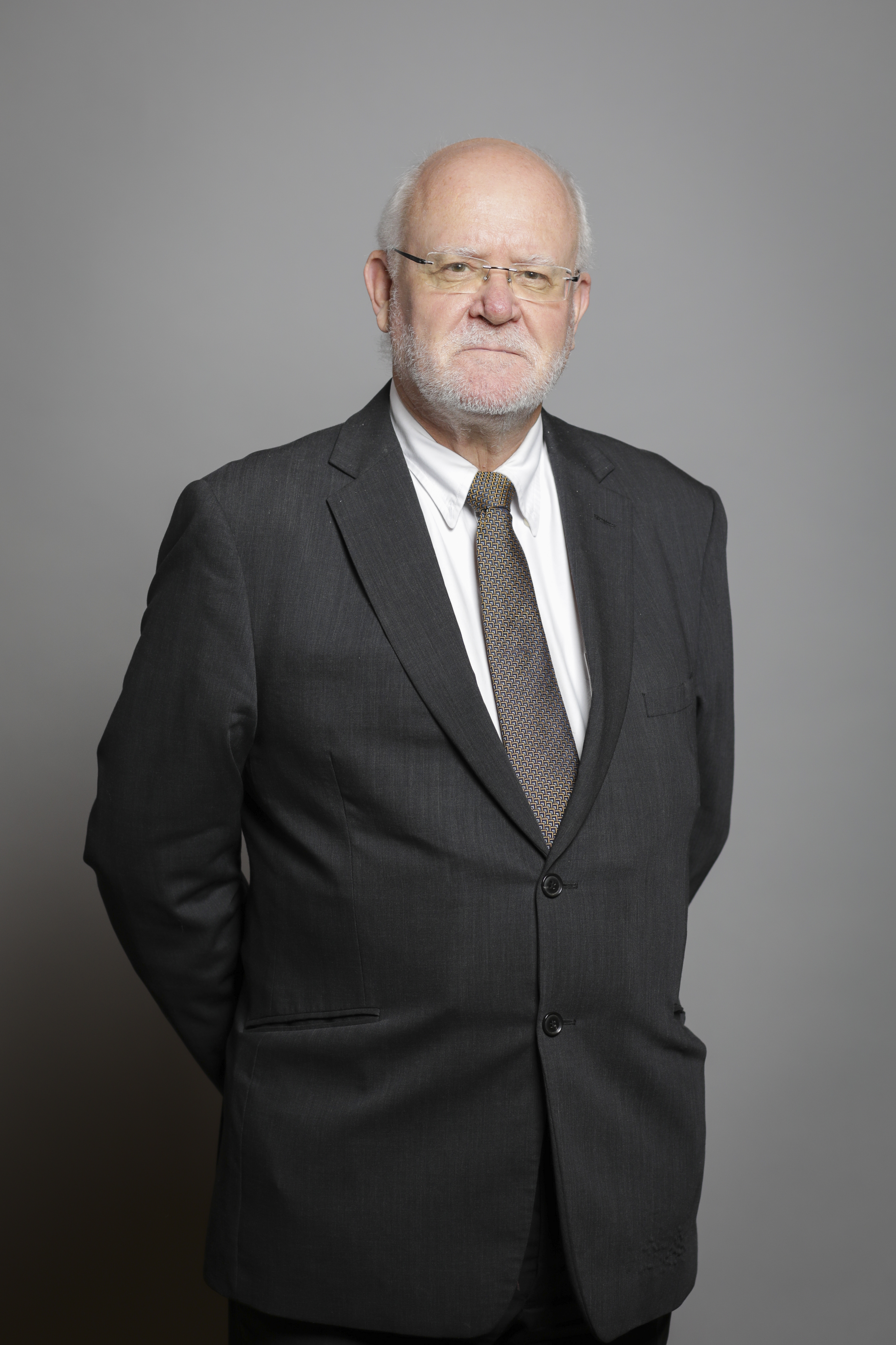 Official portrait of Lord Haworth Full sized portrait of Lord Haworth